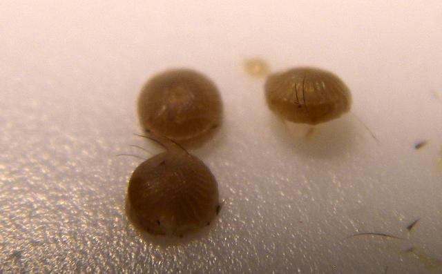 Asteroscopus sphinx, eggs. Location: The Netherlands - Oldebroek.